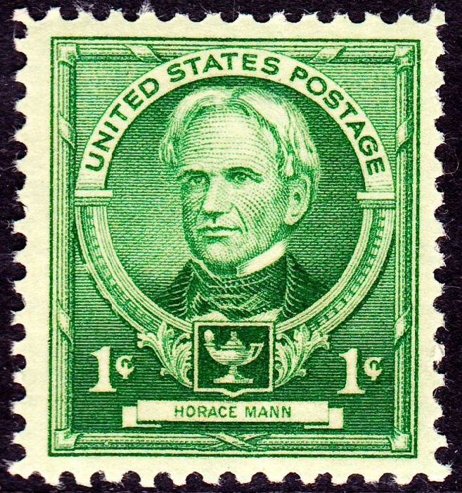 Horace_Mann2_1940_Issue-1c.jpg